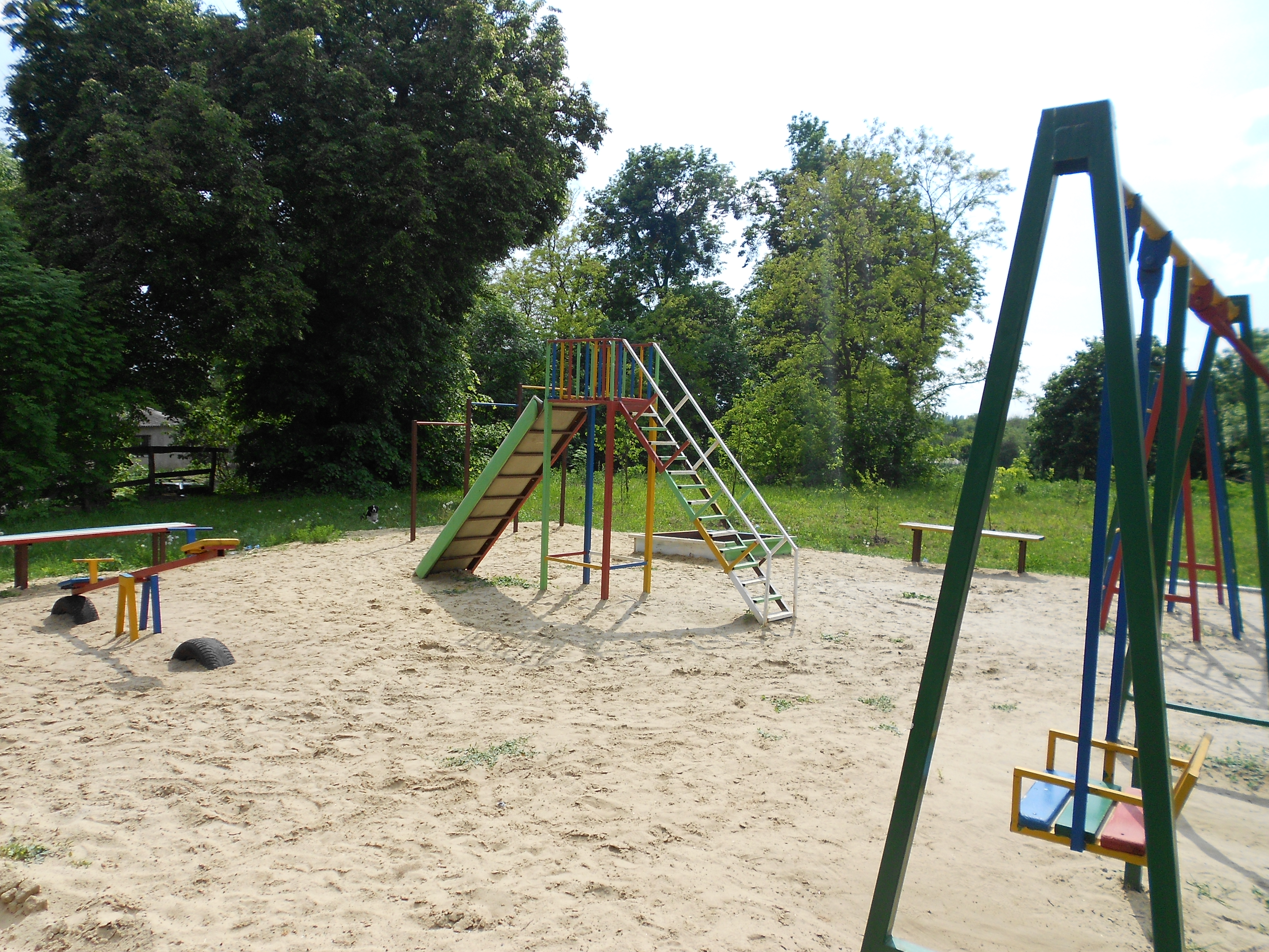 Playground for children in center of Krushynka, village in Vasilkov district, Kyiv region, Ukraine